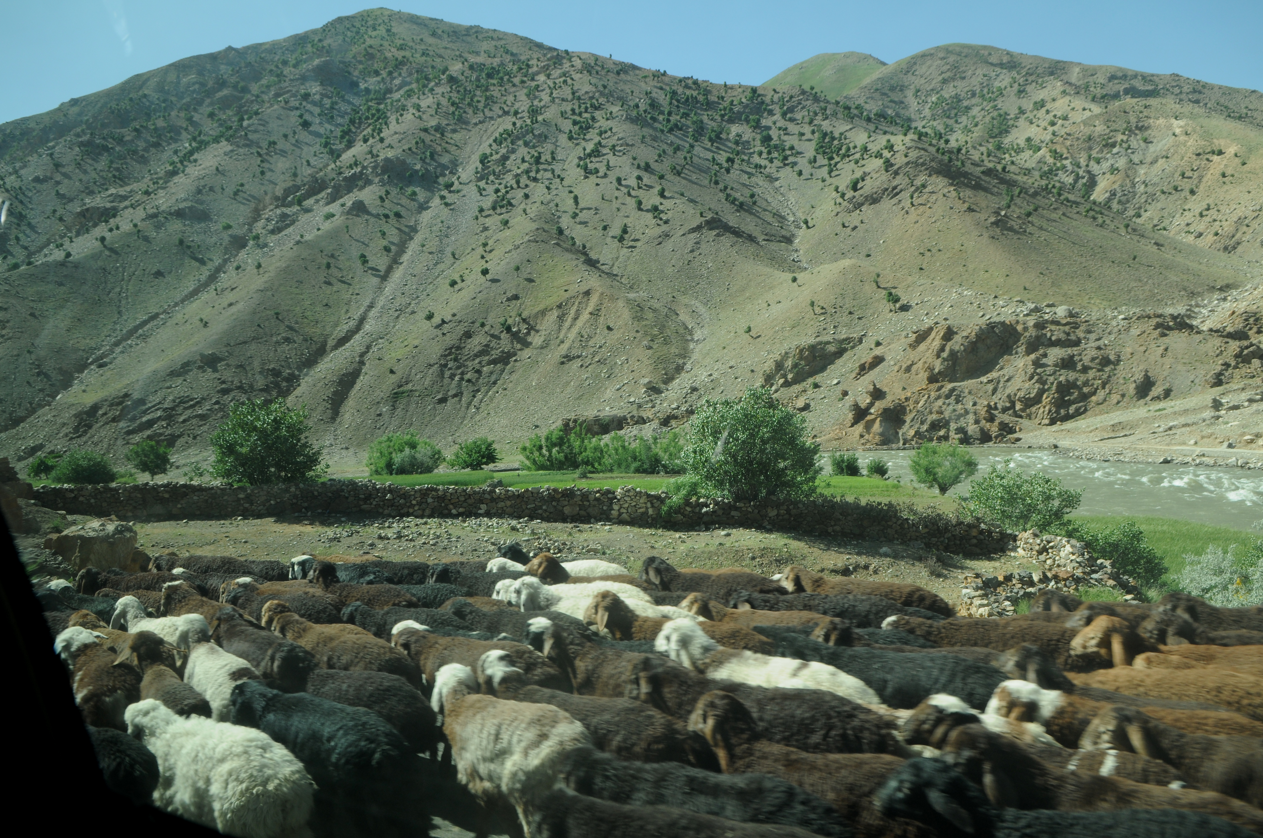 A scenic view of the Panjshayr River Valley as sheep make their way down the main highway through Panjshayr province, May 21, 2011. Afghan sheep herders trek several miles daily to find food for the sheep to graze on. Photo by Master Sgt. Michael O'Connor